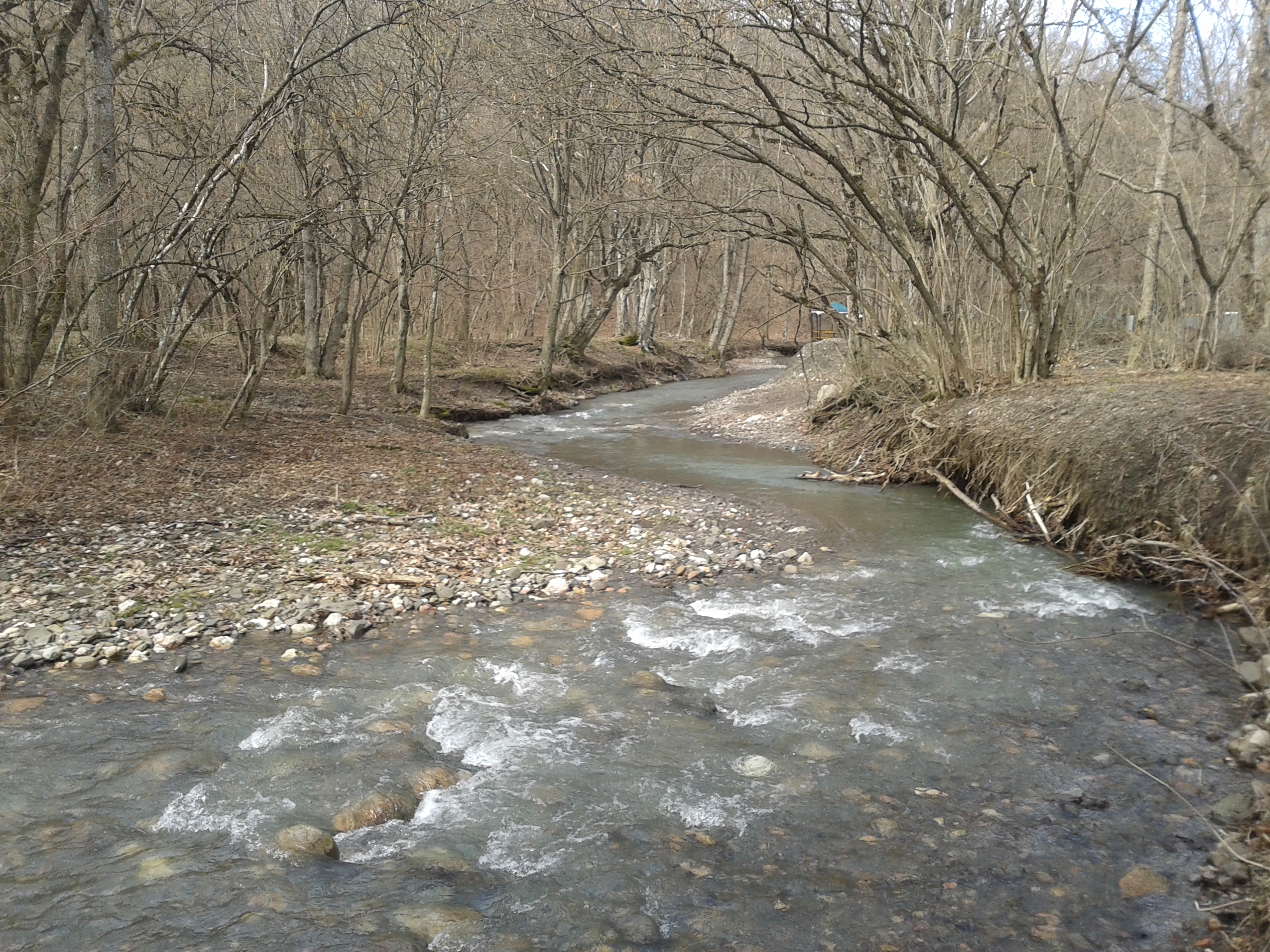 The Angara River, the tributary of Salgir, Crimea.